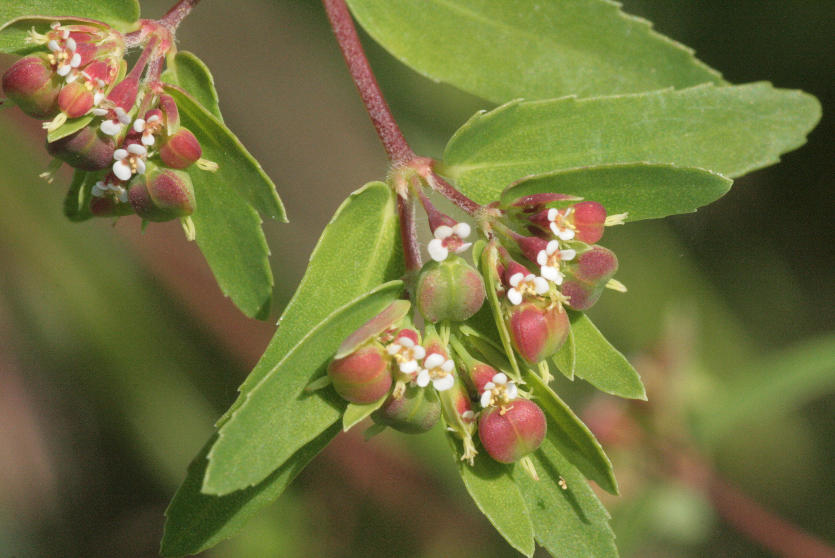 Euphorbia nutans